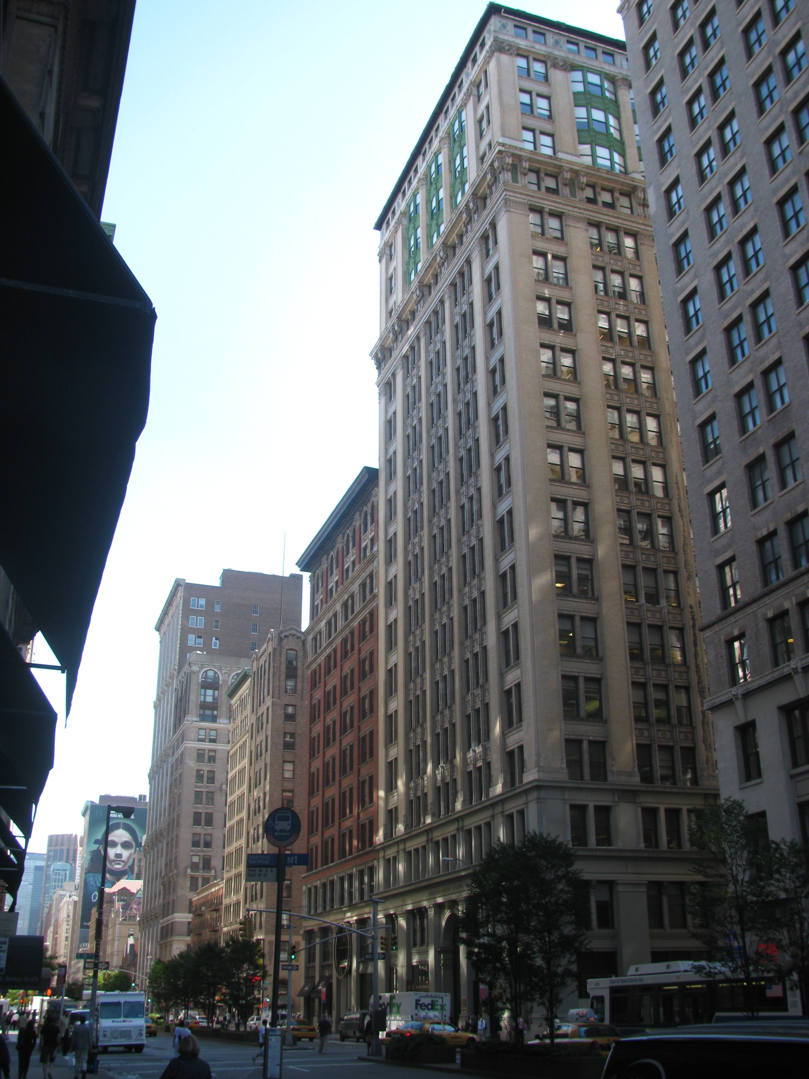 A 1909 structure designed by R.H. Robertson.